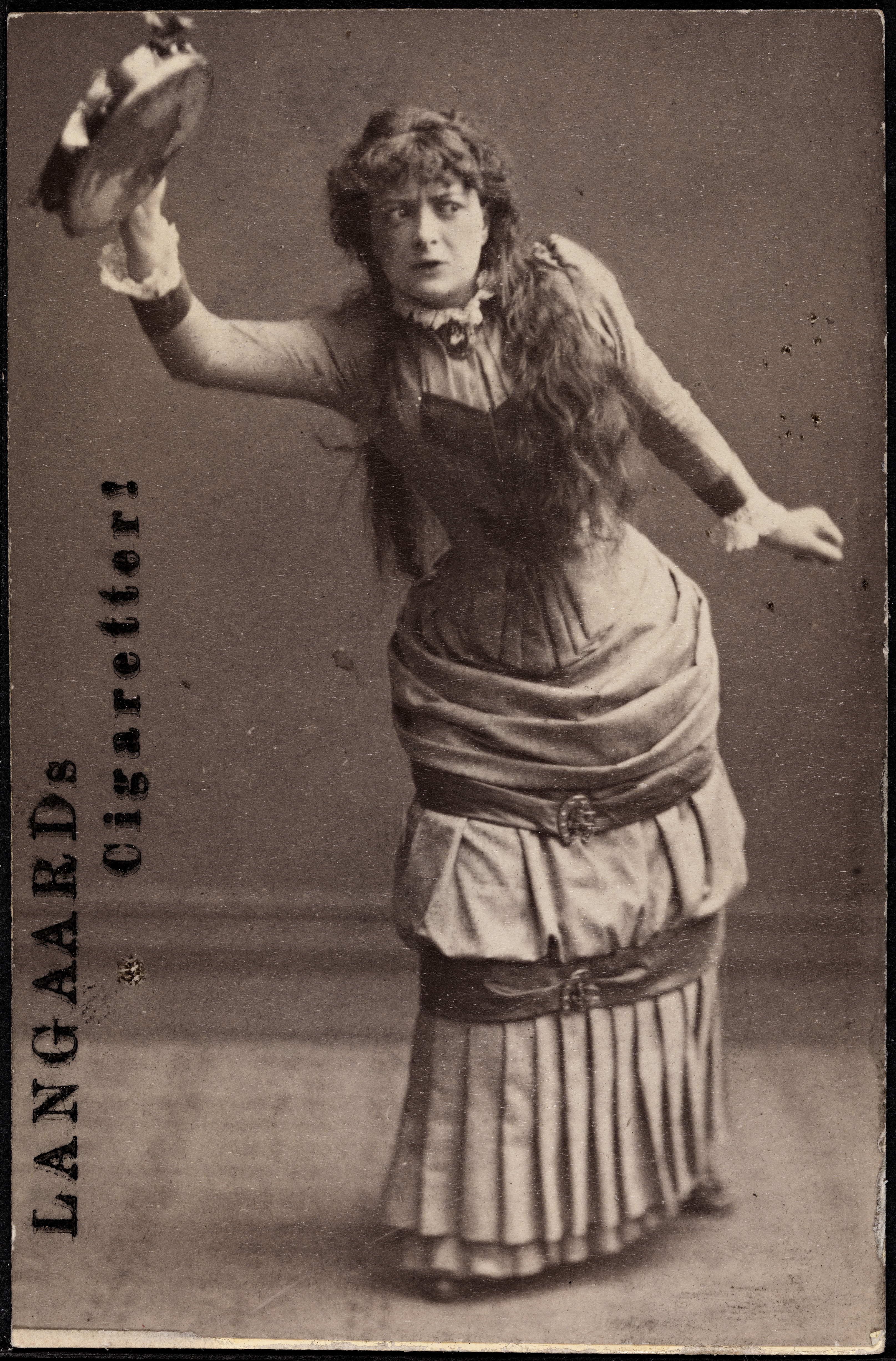 Beskrivelse / Description: Reklamekort for Langaards Cigaretter Henrik Ibsens "Et dukkehjem" / Henrik Ibsen's "A Doll's House". Noras tarantella-scene. Dato / Date: ukjent / unknown Sted / Place: Hordaland, Bergen Fotograf / Photographer: ukjent / unknown Digital kopi av original / Digital copy of original: s/h papirpositiv Eier / Owner Institution: Nasjonalbiblioteket / National Library of Norway Lenke / Link: Bildesignatur / Image Number: bldsa_CDV02487 Et dukkehjem i Wikipedia A Doll's House in Wikipedia